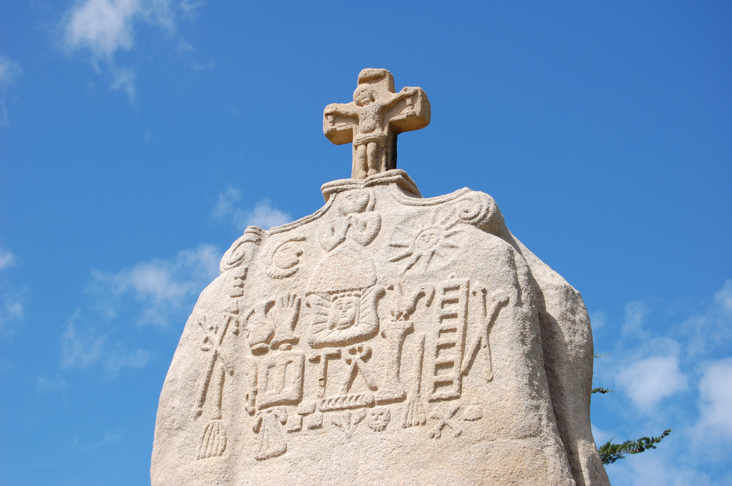 Christianized menhir of Saint-Uzec in Pleumeur-Bodou, France - close-up.